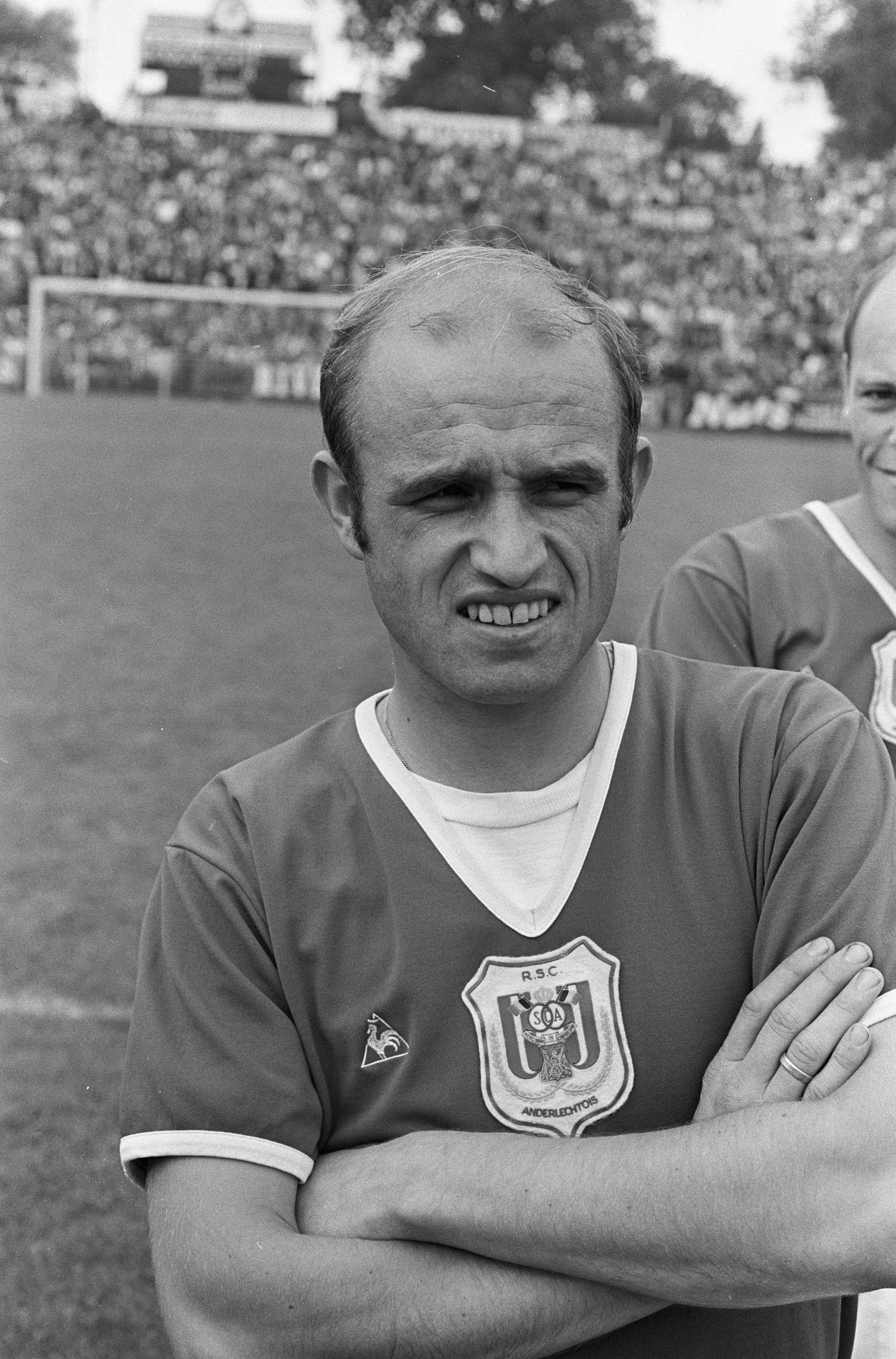 Georges Heylens as player of RSC Anderlecht.